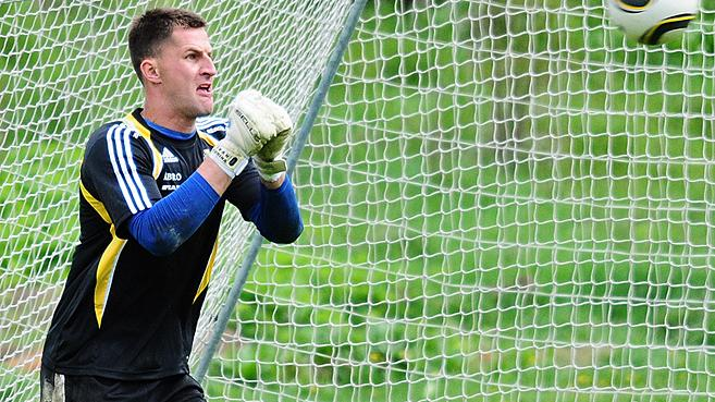 A picture on the new AIK goalkeeper Ivan Turina.